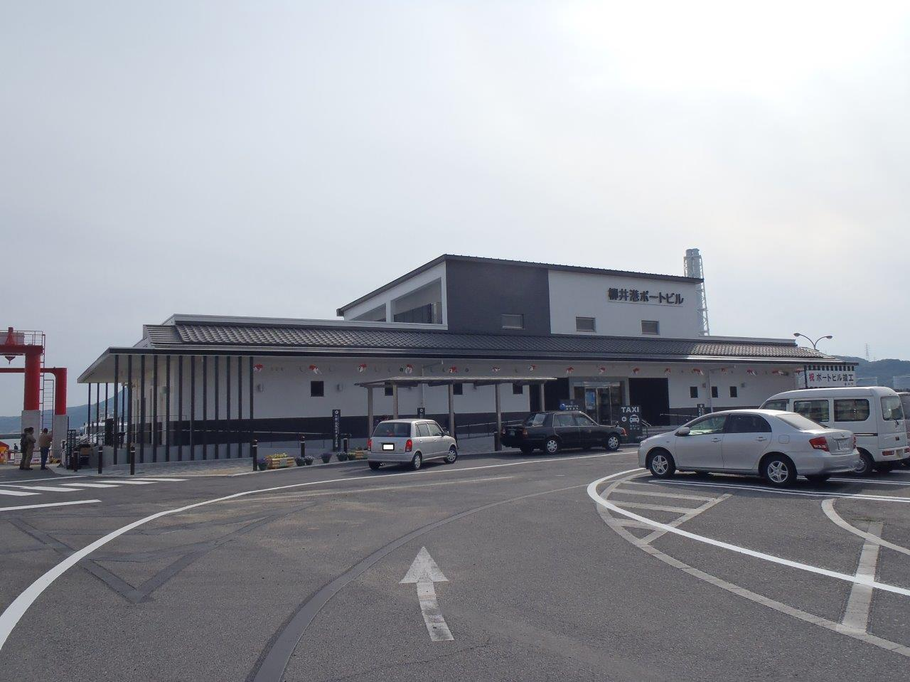 New Port-building